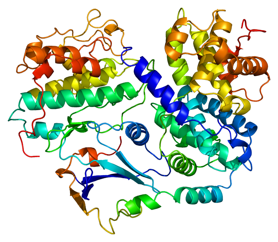 Structure of the CDKN1B protein. Based on PyMOL rendering of PDB 1jsu.